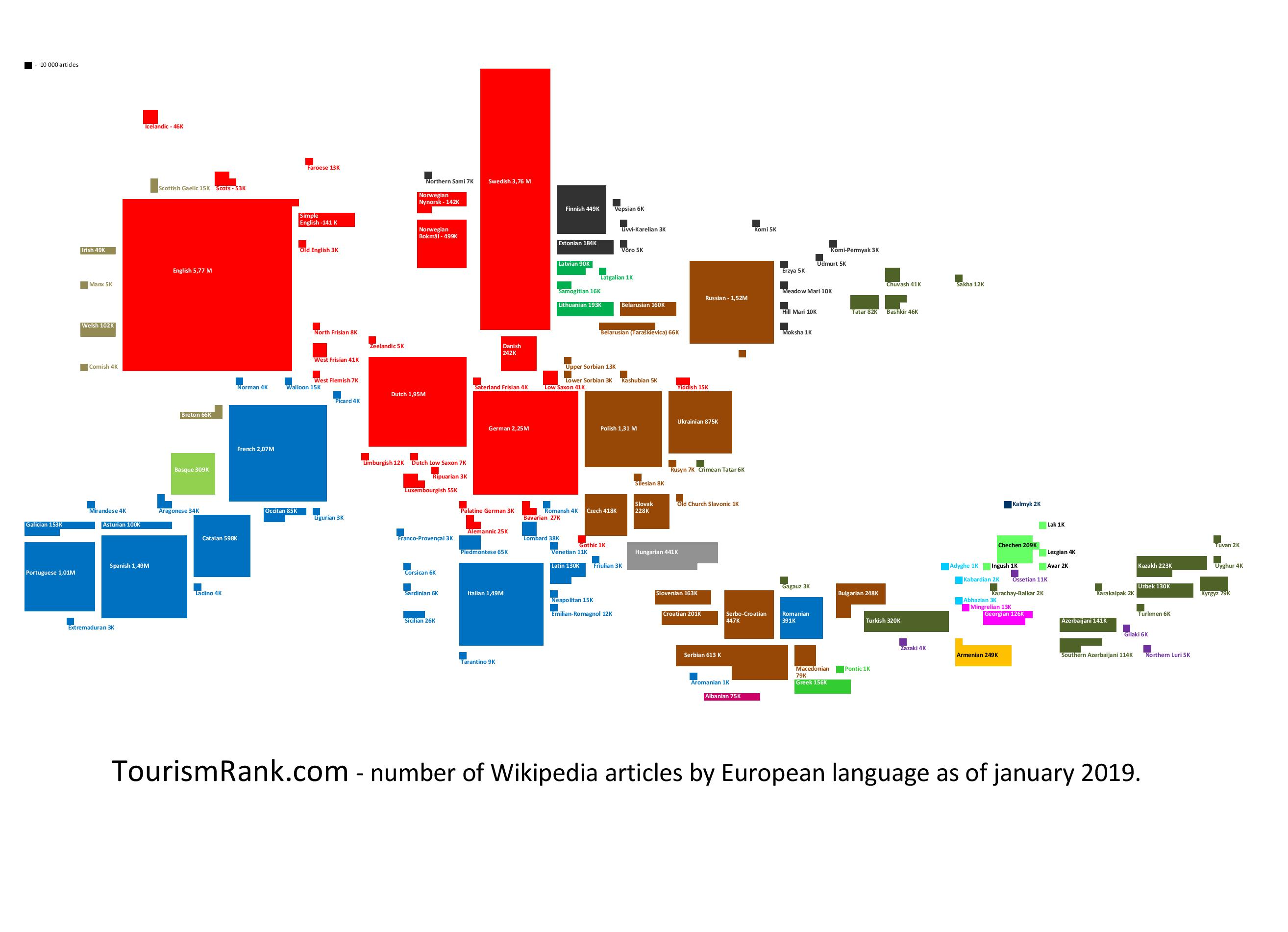 This map is showing how many articles of each European language there were as of January 2019. 1 square represents 1000 articles. Languages with less than 1000 articles are represented with one square. Languages are grouped by language family and each language family is presented by a separate colour.